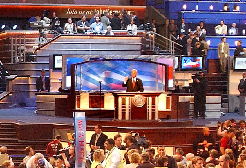 Title: Mayor Thomas M. Menino welcomes delegates to the 2004 Democratic National Convention Creator: Mayor's Office - City Photographer Date: 2004 July 26 Source: Mayor Thomas M. Menino records, Collection #0247.001 Rights: Copyright City of Boston Citation: Mayor Thomas M. Menino records, Collection #0247.001, City of Boston Archives, Boston